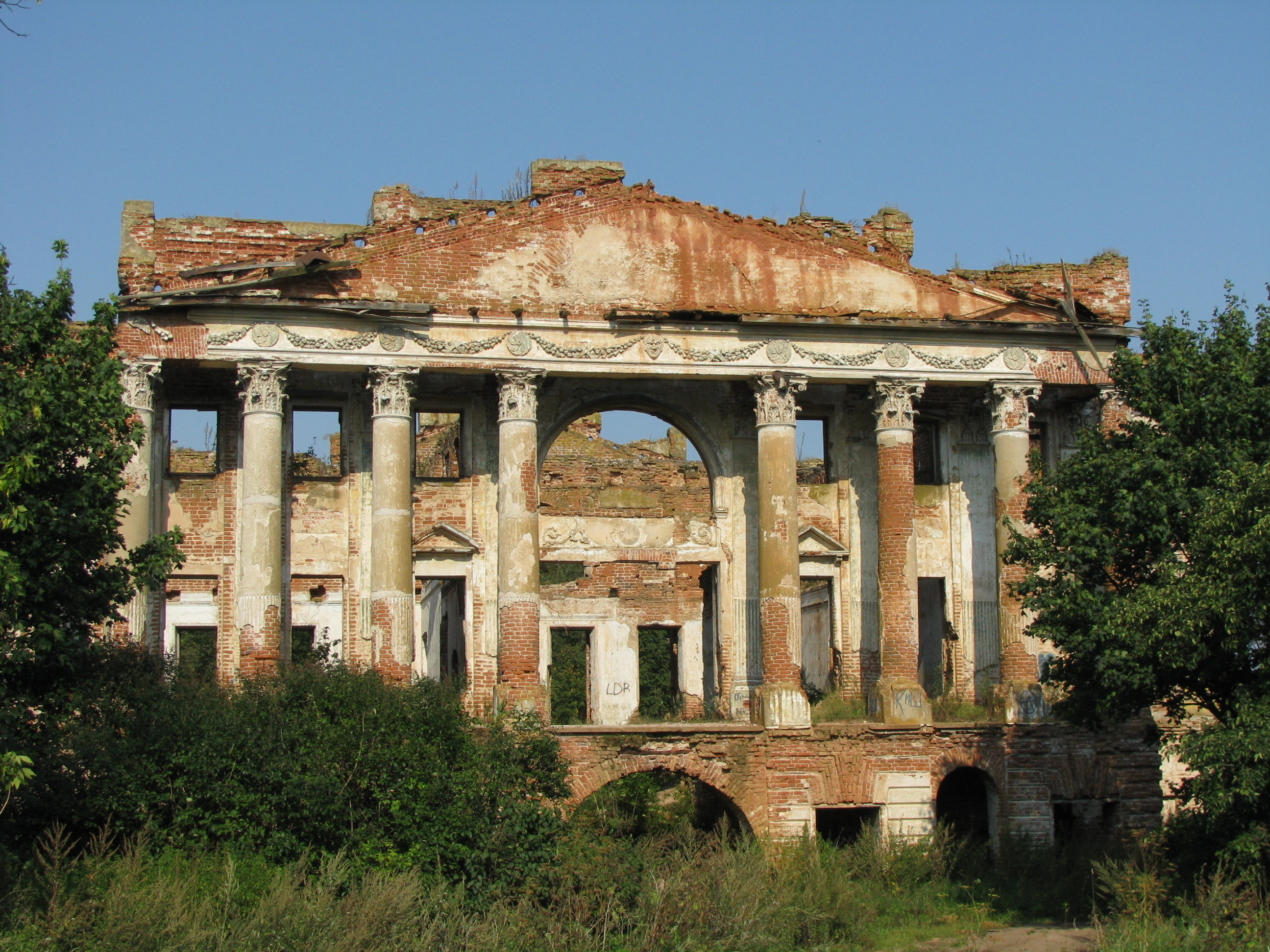 Pushchino-na-Nare (Serpukhov District, Moscow Region). Vyazemskiye Manor: Hall (XVIII — XIX)